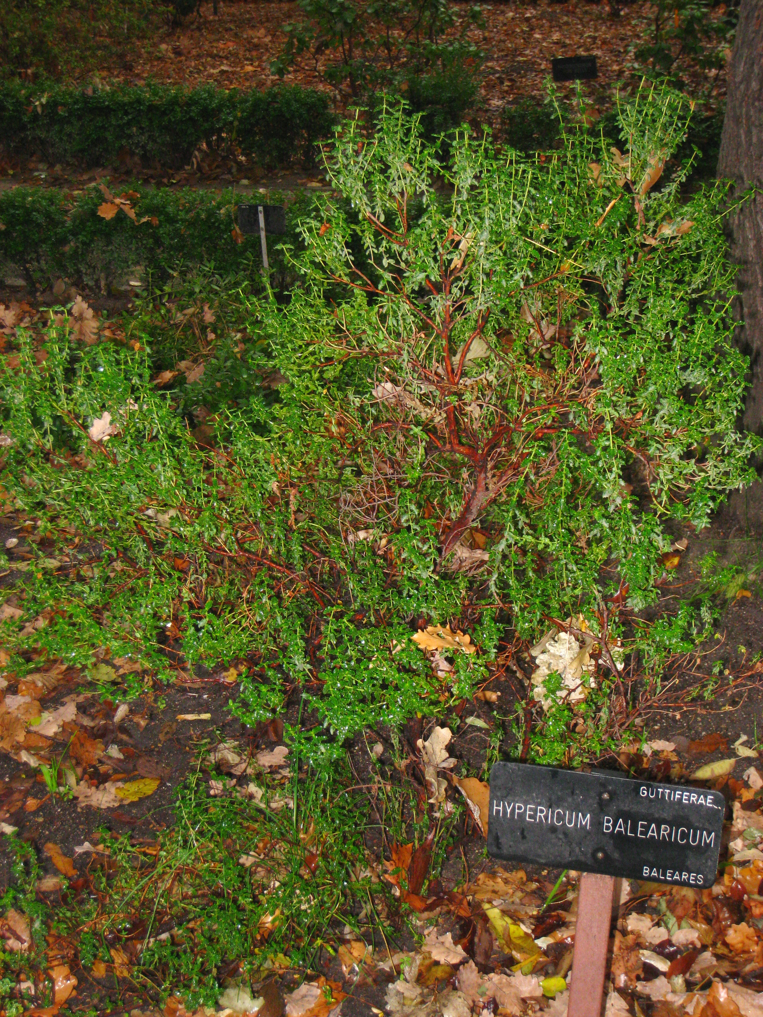 Hypericum balearicum - Royal Botanical Garden, Madrid, Spain. I took this photograph.